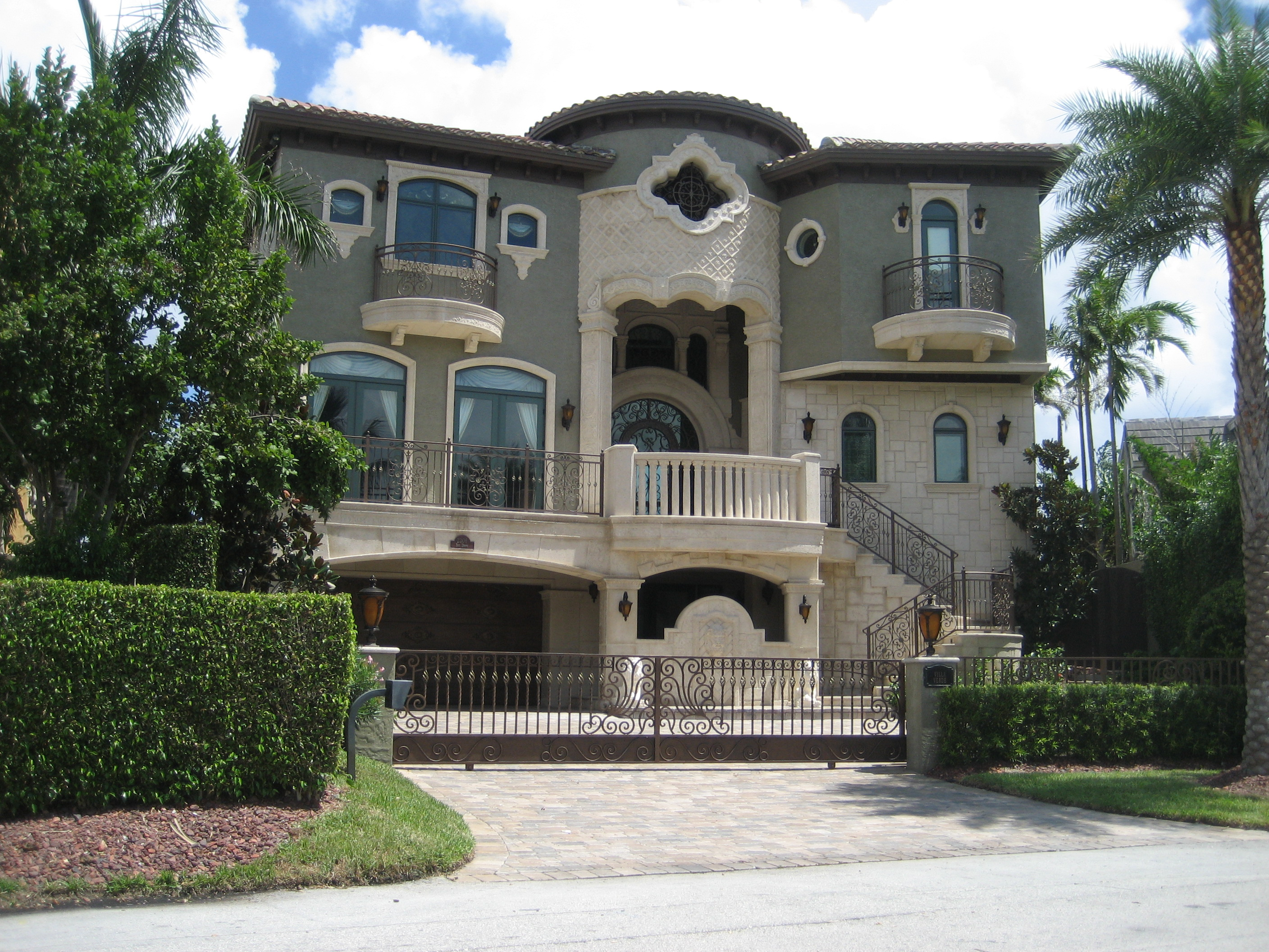 Mansion in Pompano Beach, Florida.